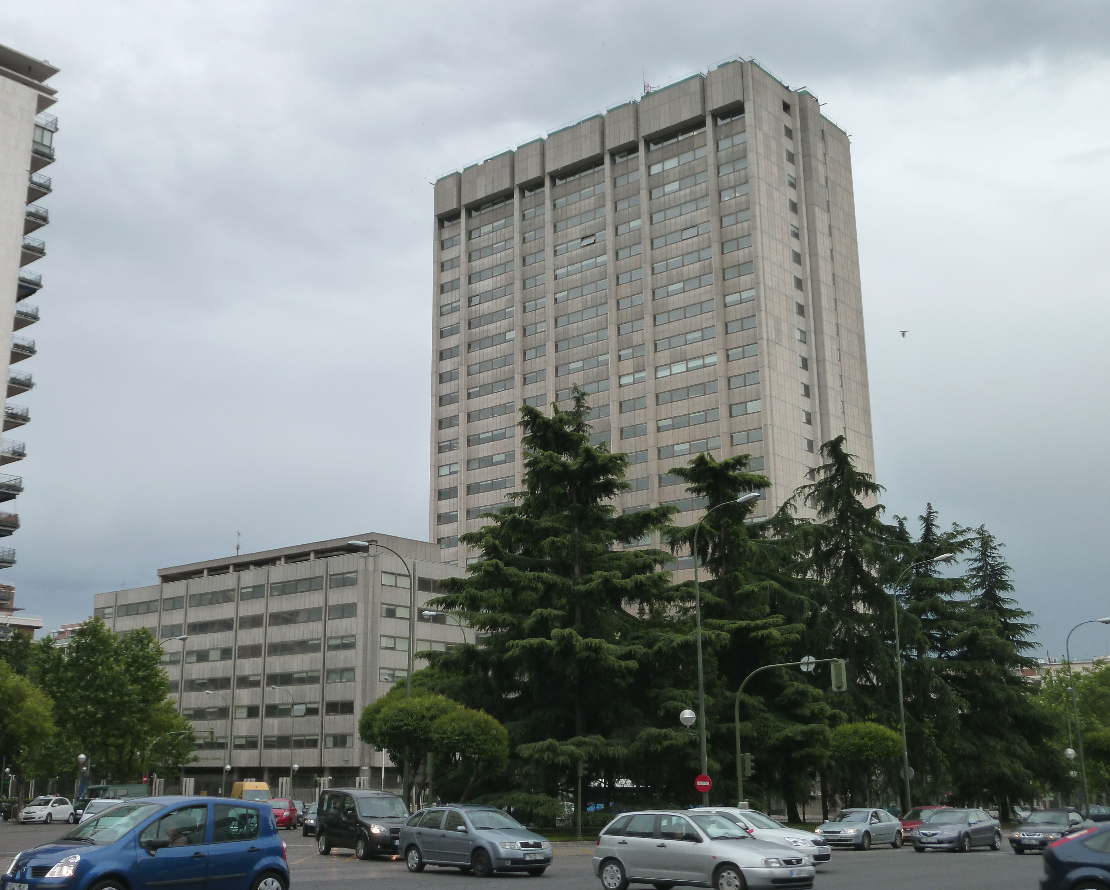 Headquarters of the Spanish Ministry of Industry, Energy and Tourism, at 160 Paseo de la Castellana (an avenue) in Chamartín district in Madrid.